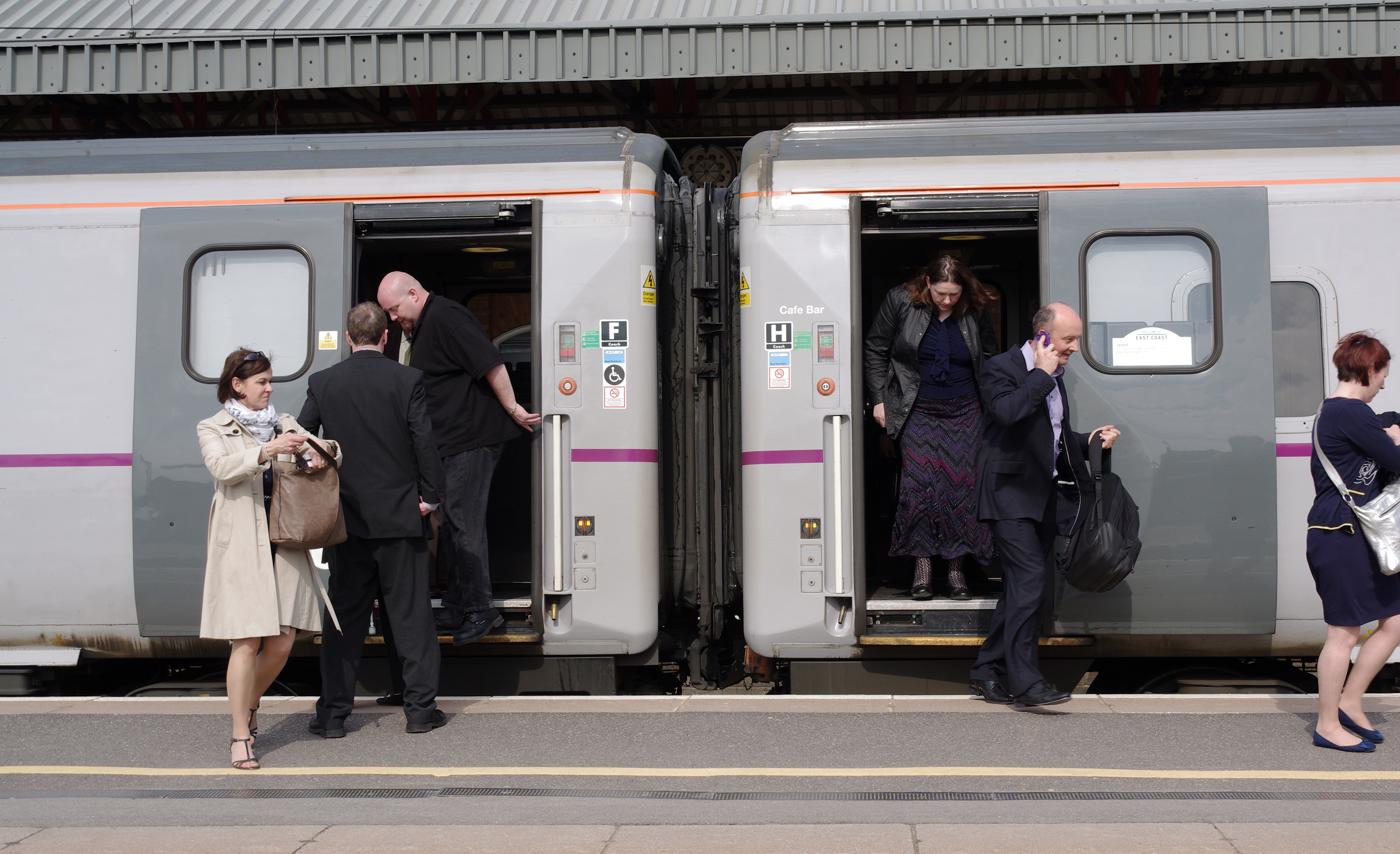 Passengers disembark and embark an East Coast Mk4 rake at Grantham railway station.